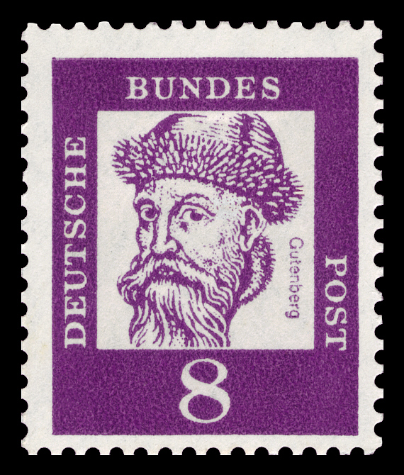 Stamps series of distinguished German Graphics by Michel und Kieser Ausgabepreis: 8 Pfennig First Day of Issue / Erstausgabetag: 3. August 1961 Michel-Katalog-Nr: 349